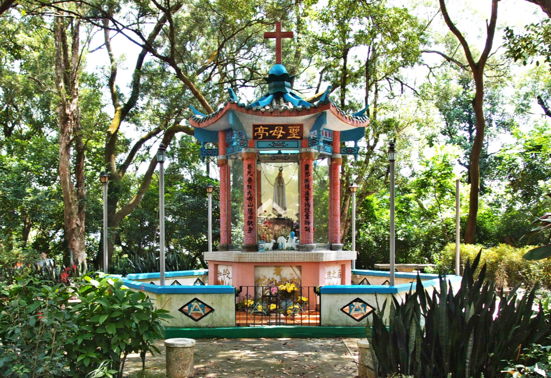 設計為中西合壁的聖母亭